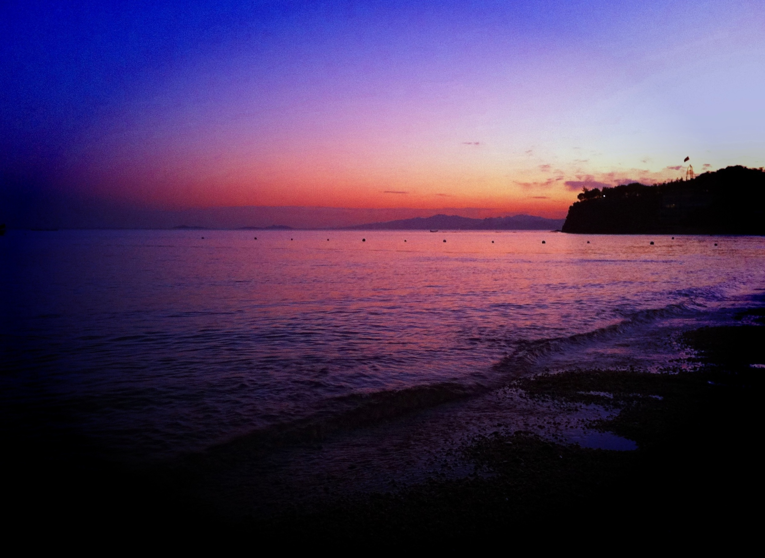 Beach side sunset in Dalian, China